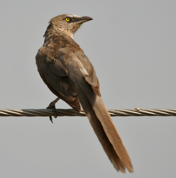 Large Grey Babbler Turdoides malcolmi in Parli, Maharashtra, India.